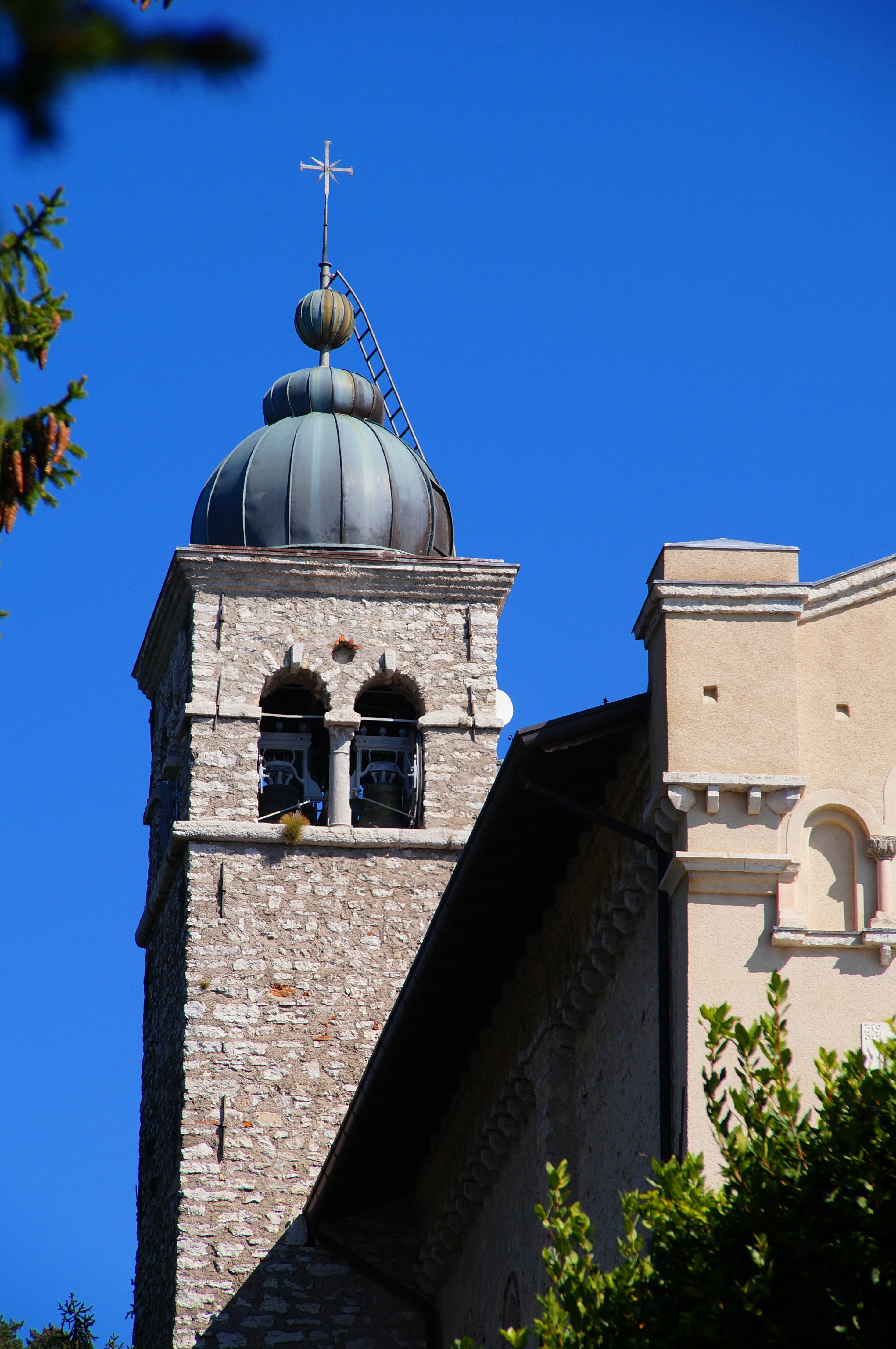 View of the churchtower of the „Madonna di Monte Castello“ on the Monte Castello in Tignale (Gardola).